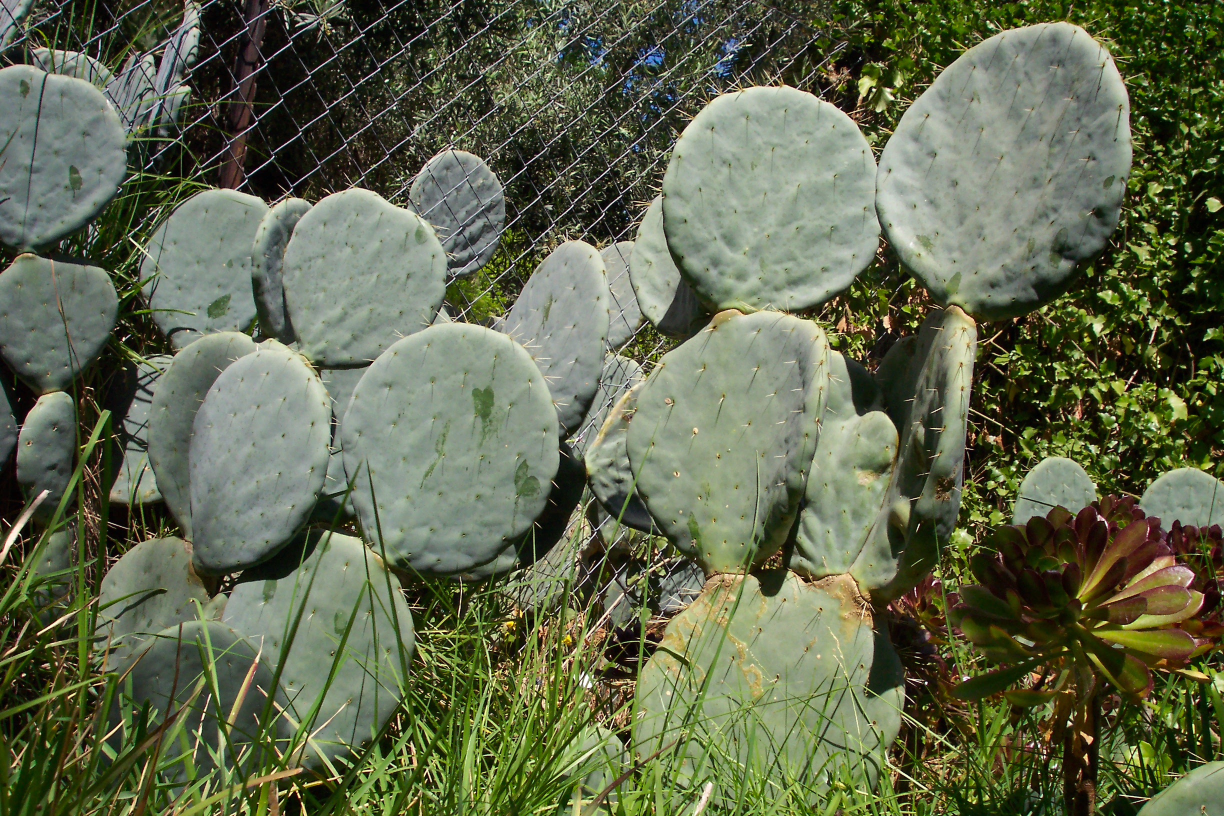 Cirsium